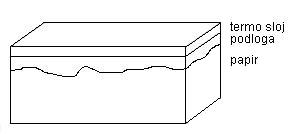 Cross section of thermal paper.